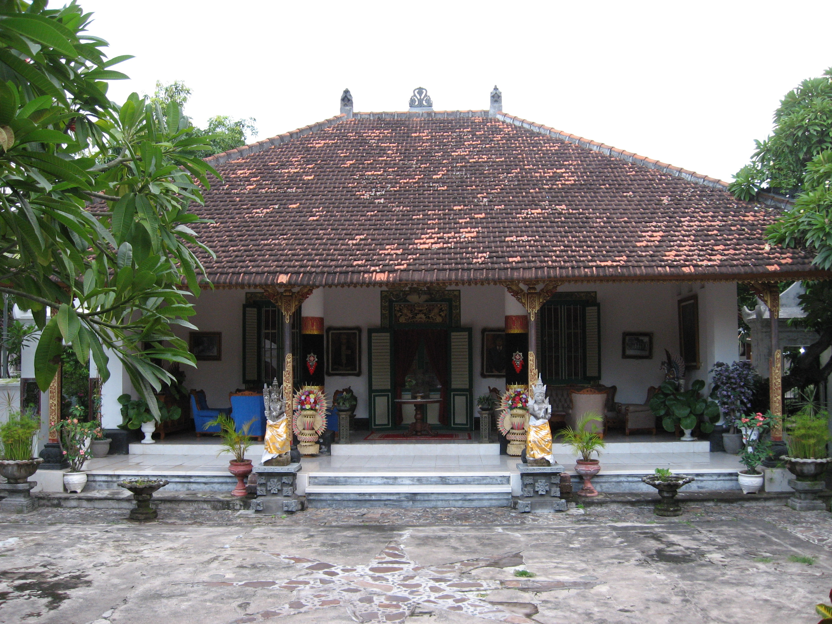 Royal Palace Singaraja (Bali-Indonesia); main building